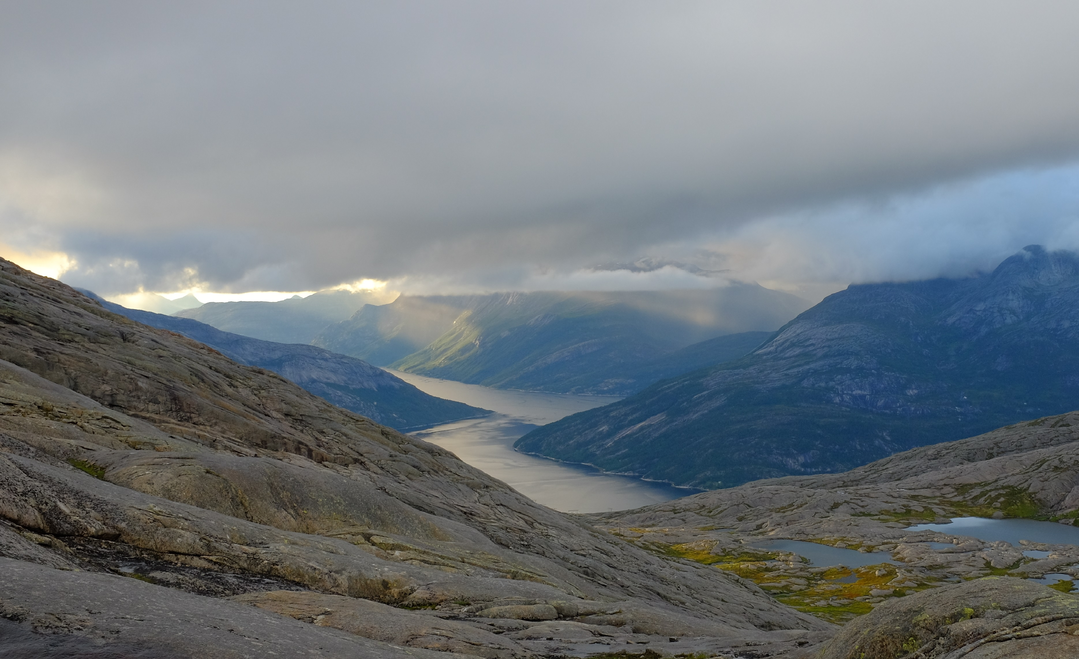 Mørsvikfjorden is the inner part of Nordfolda. It runs from Ørnesodden in northern and Stavnes south in Steigen and further southeast to the fiord in Sildhopen in Mørsvikbotn in Sørfold.